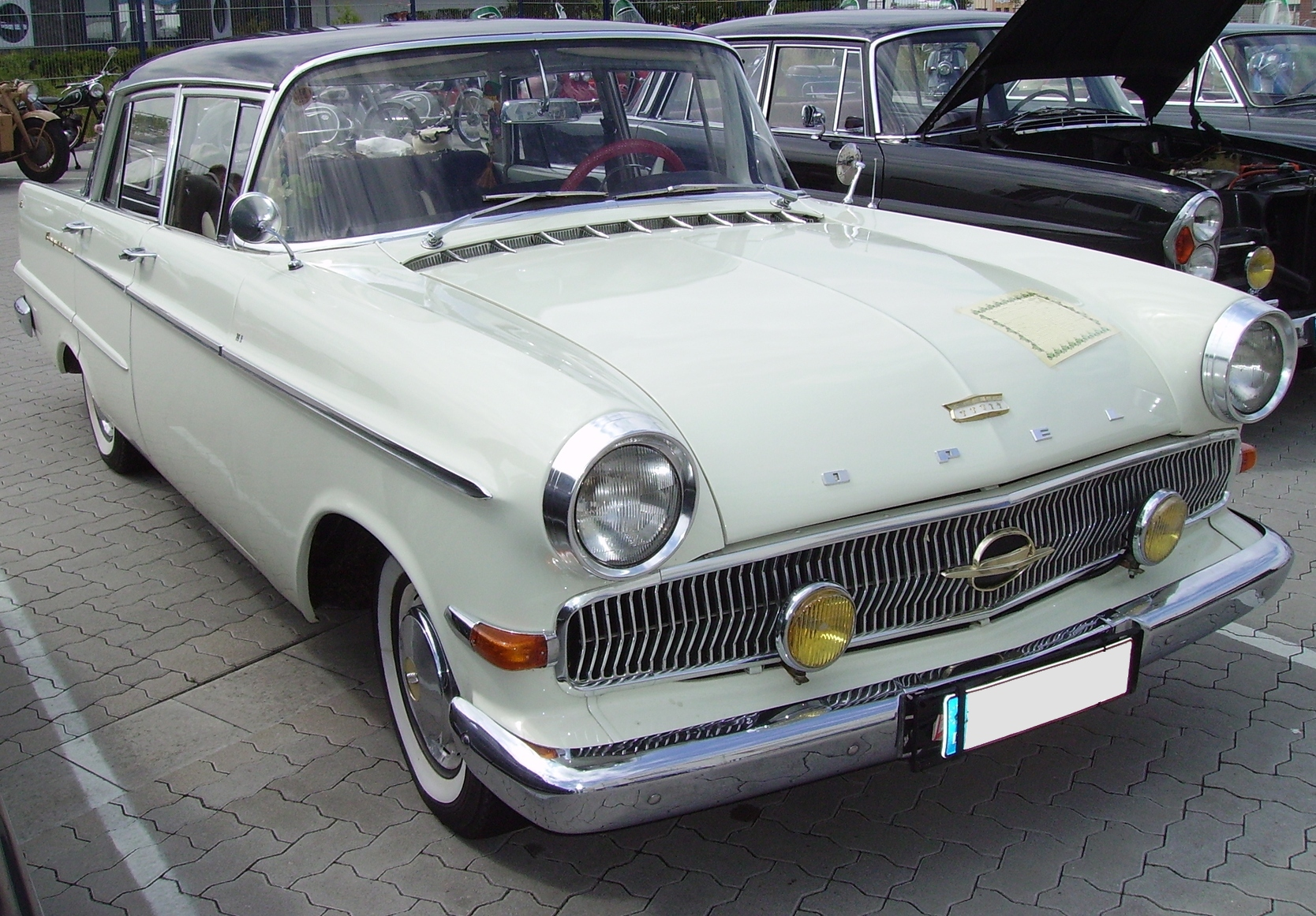 An Opel Kapitän 2,6